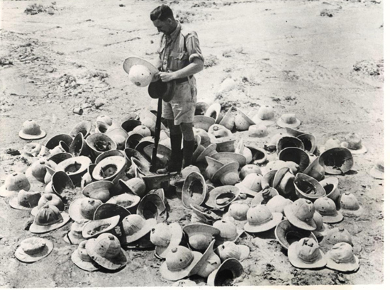 “AFRICA – A BRITISH SOLDIER PICKS HIMSELF OUT A SUN HELMET FROM A PILE OF THEM WHICH WERE LEFT BEHIND WHEN ITALIAN TROOPS LEFT THE SCENE HURRIEDLY SOMEWHERE ON THE WESTERN DESERT.”